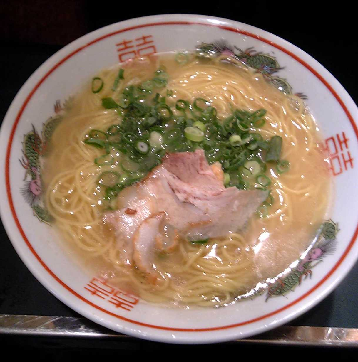 Hakatara-men